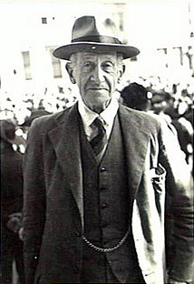 Portrait of Sir Robert Garran, at Anzac Day celebrations in Sydney, 1944.